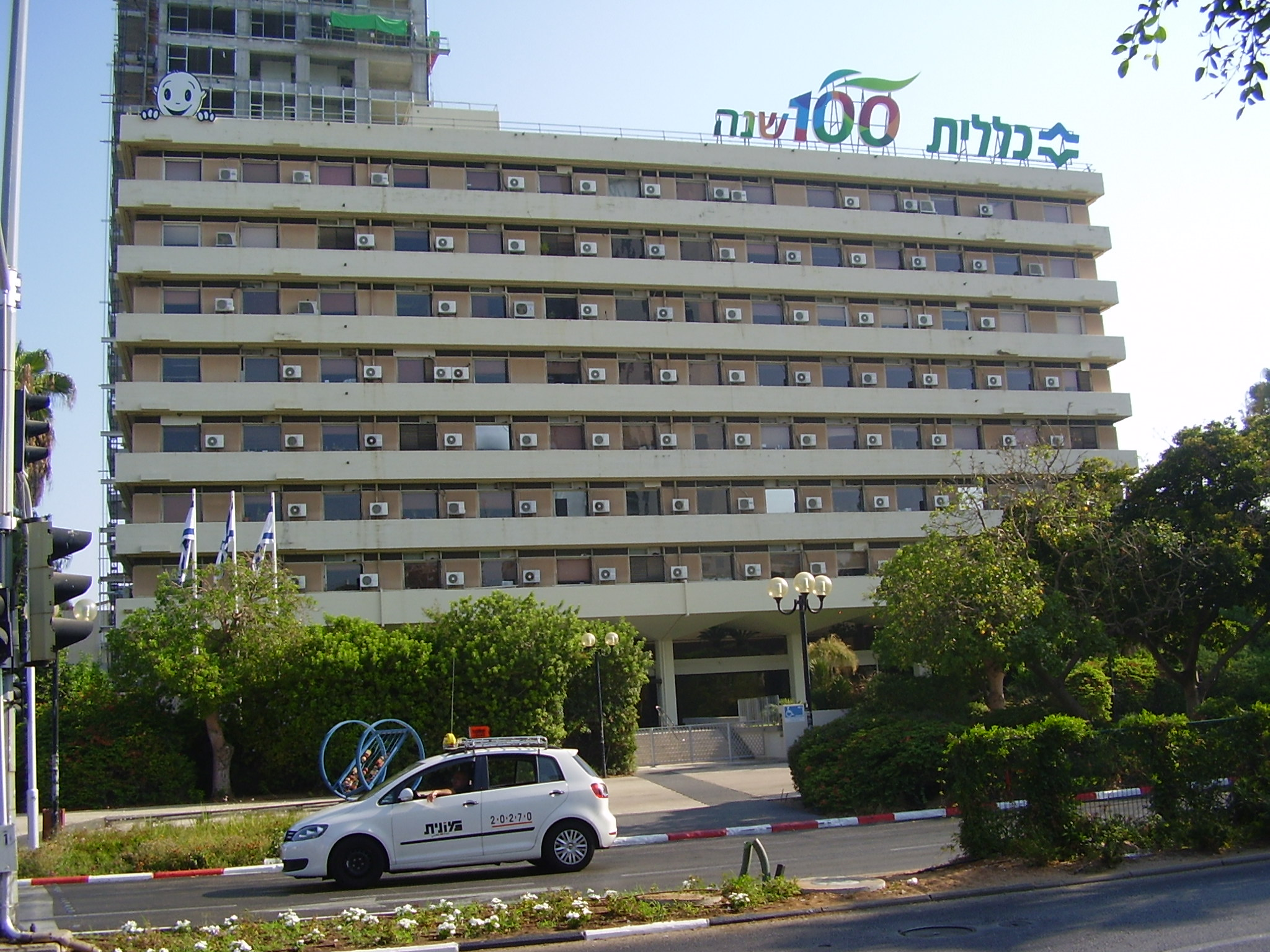 The Clalit Health Services Center in Tel Aviv